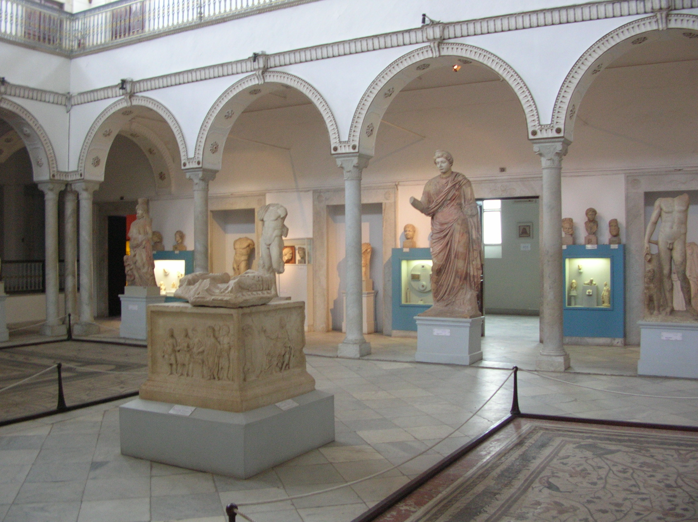 Carthage room, Bardo Museum, Tunis, Tunisia